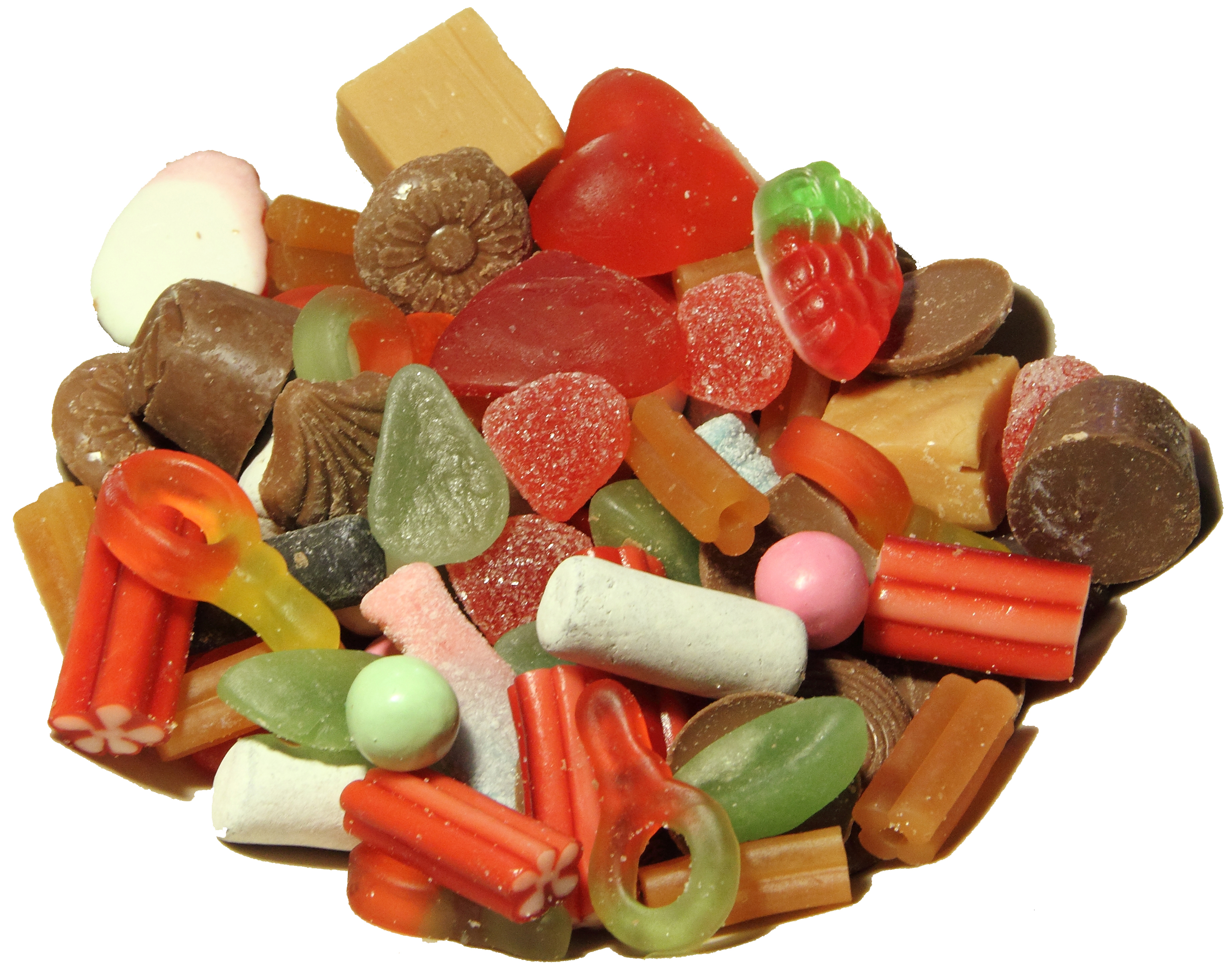 Colorful candy